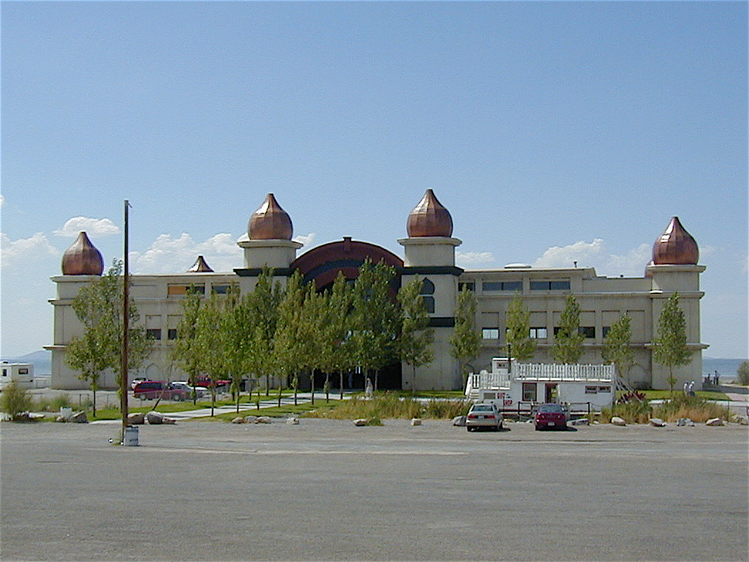 Saltair (Saltair Pavilion), exterior view Photograph made by Michael C. Berch User:MCB on 2002-08-03 and released under free license CC-BY-SA-2.5.